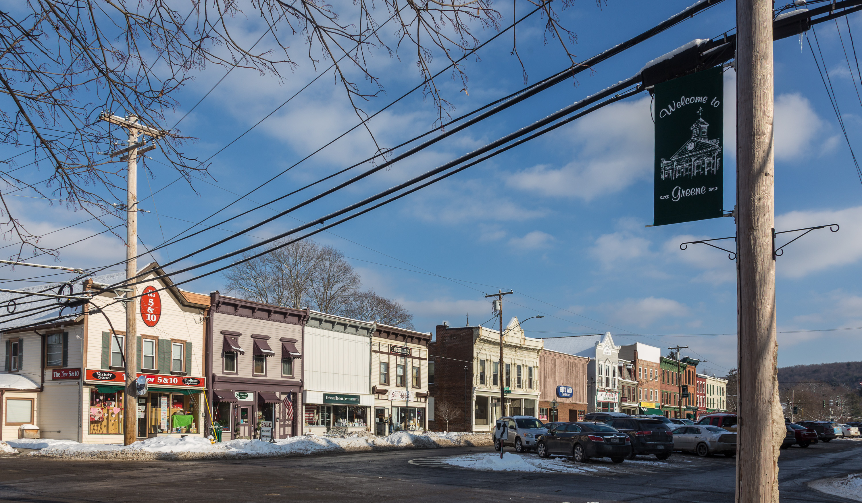 Welcome to downtown Greene, New York